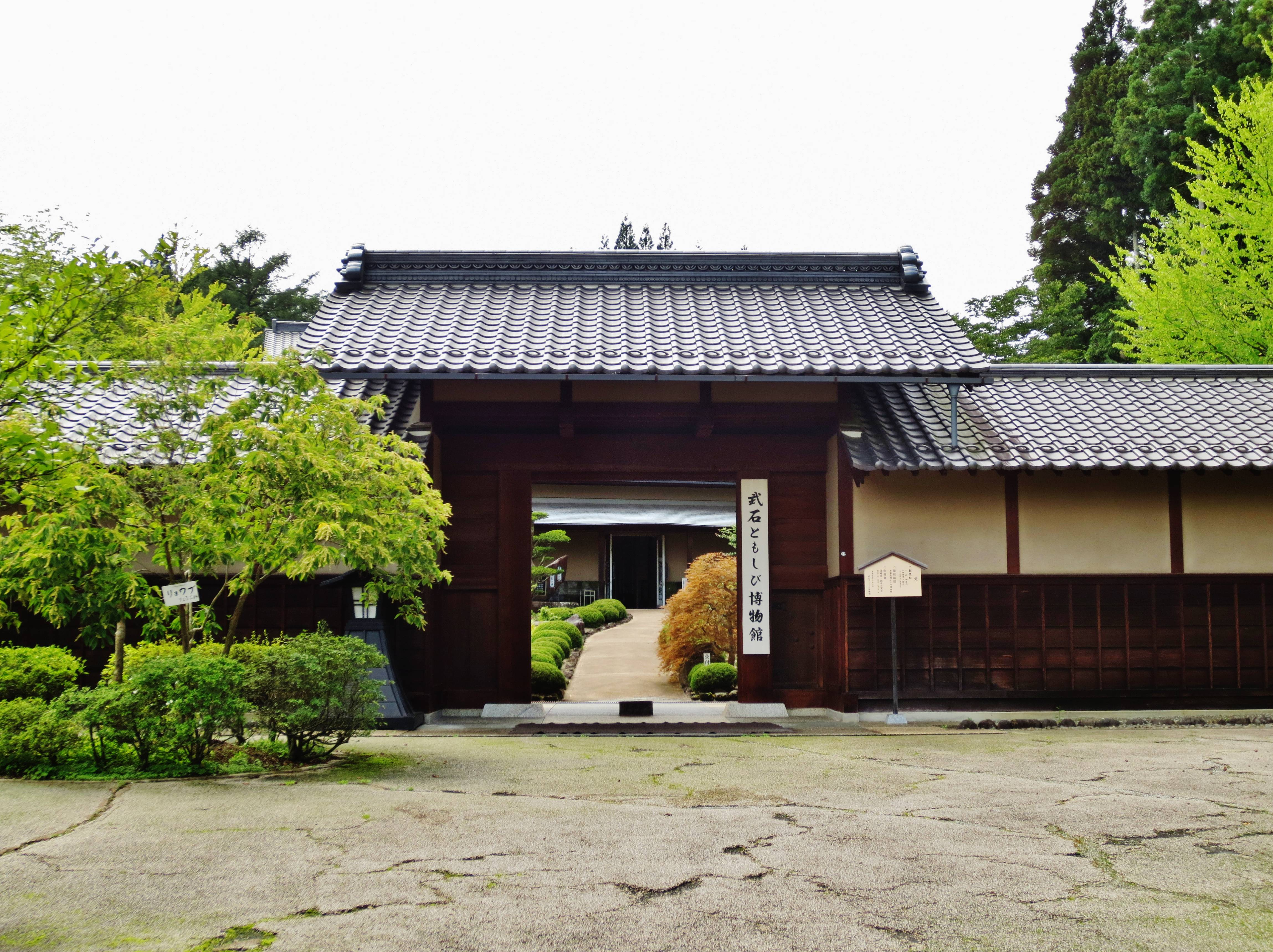 Takeshi Tomoshibi Museum.